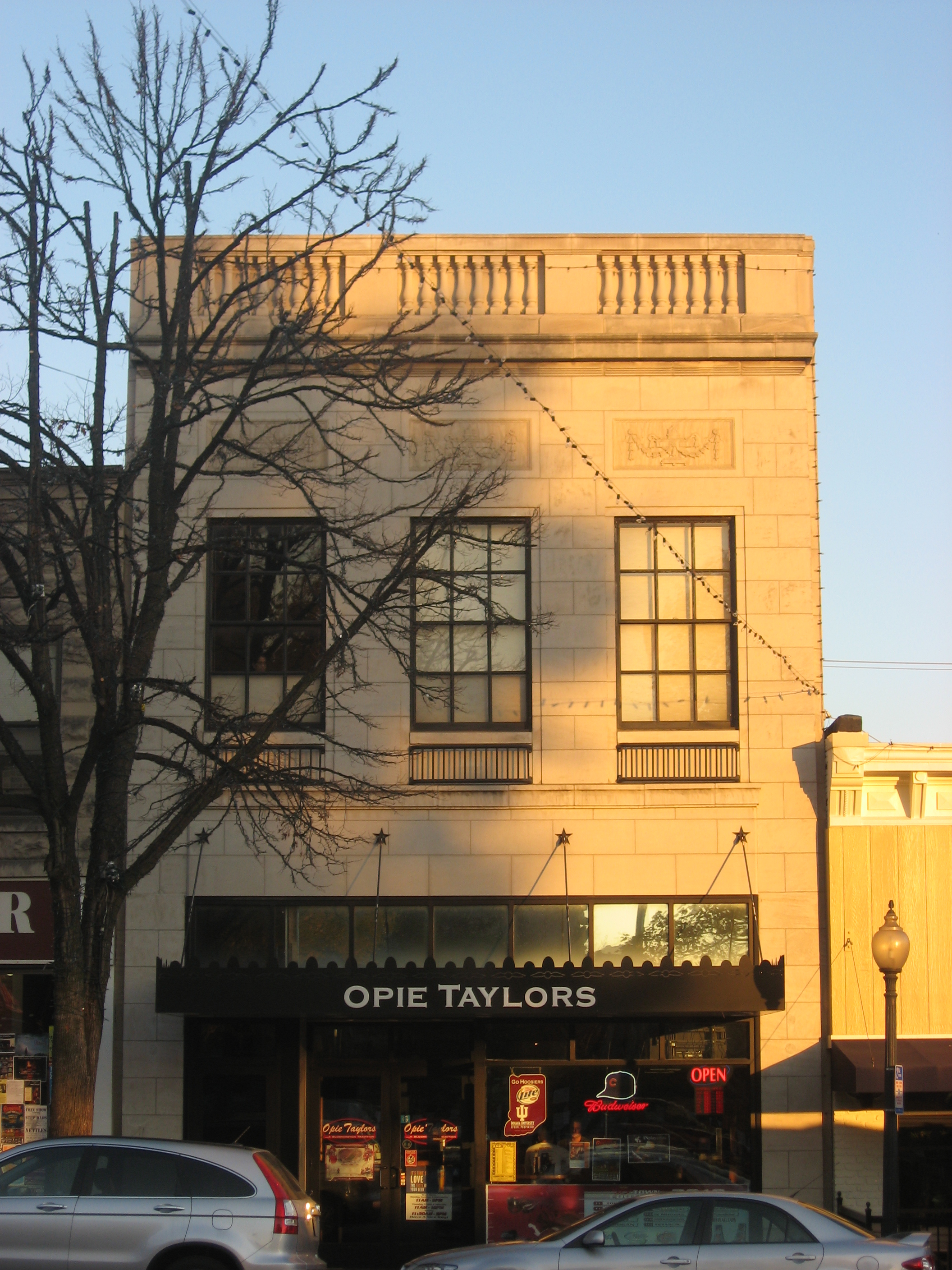 Front of Opie Taylors, located at 110 N. Walnut Street in downtown Bloomington, Indiana, United States. Built in 1928, it is part of the Courthouse Square Historic District, a historic district that is listed on the National Register of Historic Places.